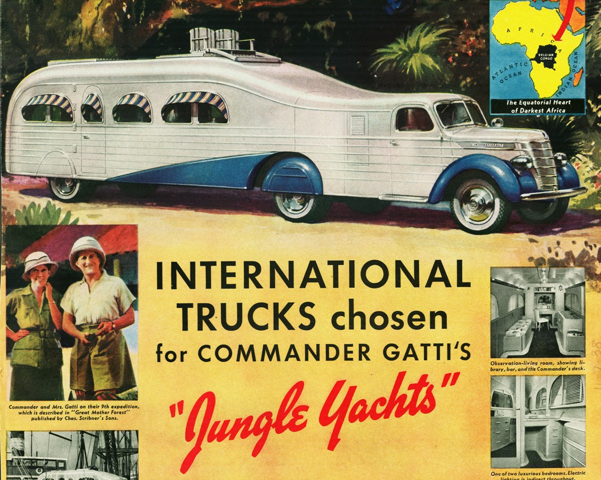 1939 International Jungle Yacht Truck, Commander Gatti